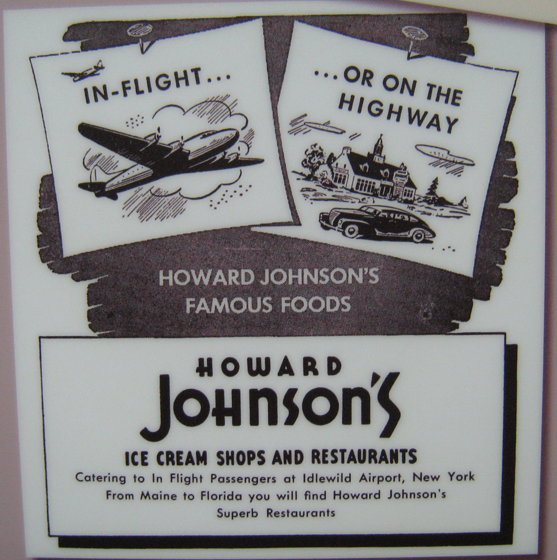 Historic Howard Johnson's restaurant chain advertisement on display at the National Air and Space Museum in Washington, DC.